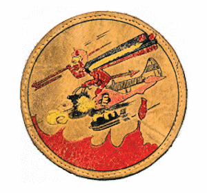 Emblem of the USAAF 365th Fighter Group (World War II) Source: USAF Maurer, Maurer (1983). Air Force Combat Units Of World War II. Maxwell AFB, Alabama: Office of Air Force History. ISBN 0892010924.